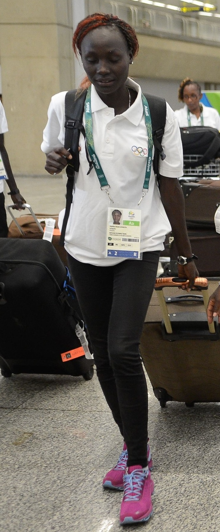 Rio de Janeiro - Anjelina Nadai Lohalith arrives in Rio for the 2016 Summer Olympic Games (Photo by Tomaz Silva/Agência Brasil)